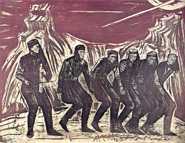 Painting by Valentinos Semertzidis "Traditional Dance"